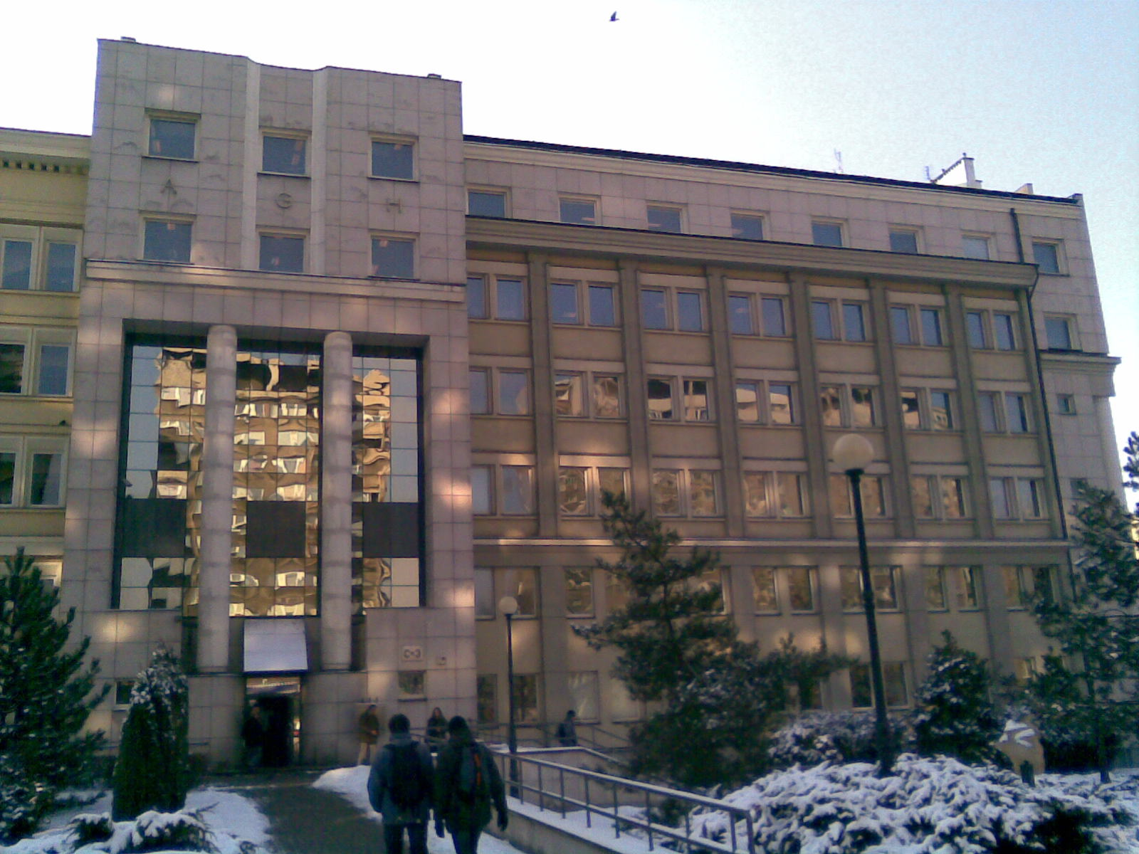 AGH Kraków, Poland, building C-3